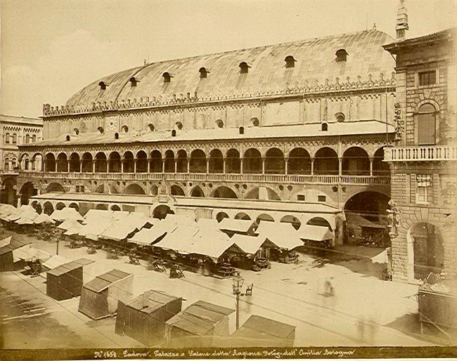 Fotografia dell'Emilia (Pietro Poppi, 1833-1914) - "Padua. Palazzo della Ragione palace". Catalogue number: 1658.